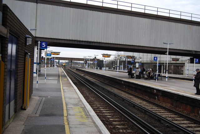 Platform 4 & 5, Gatwick Station